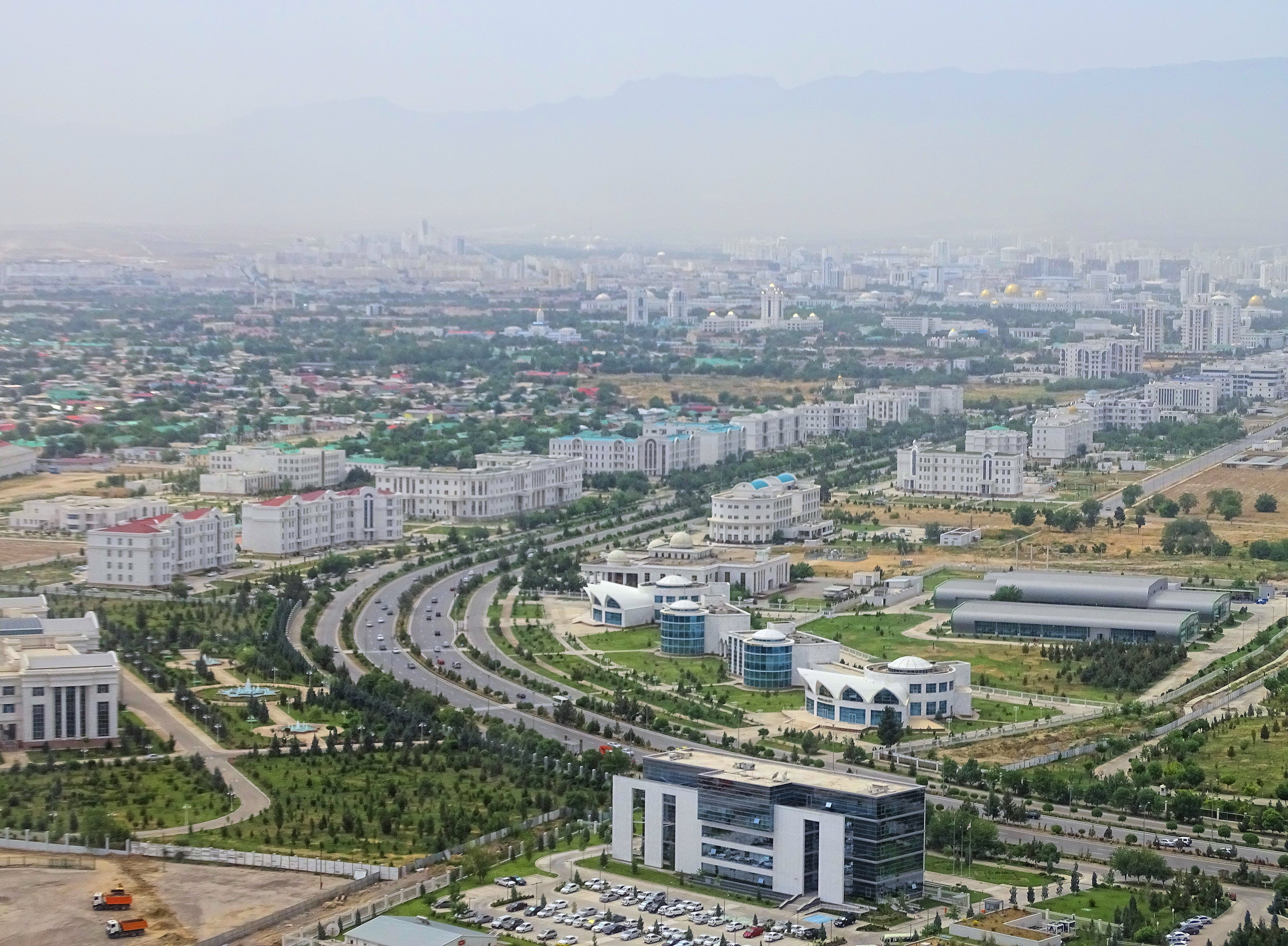 Bitaraplyk shayoly, "Neutrality Road", is the main connection between the center of Ashgabat (seen in the background) and the new international airport complex, lined with white marble buildings most of the way.